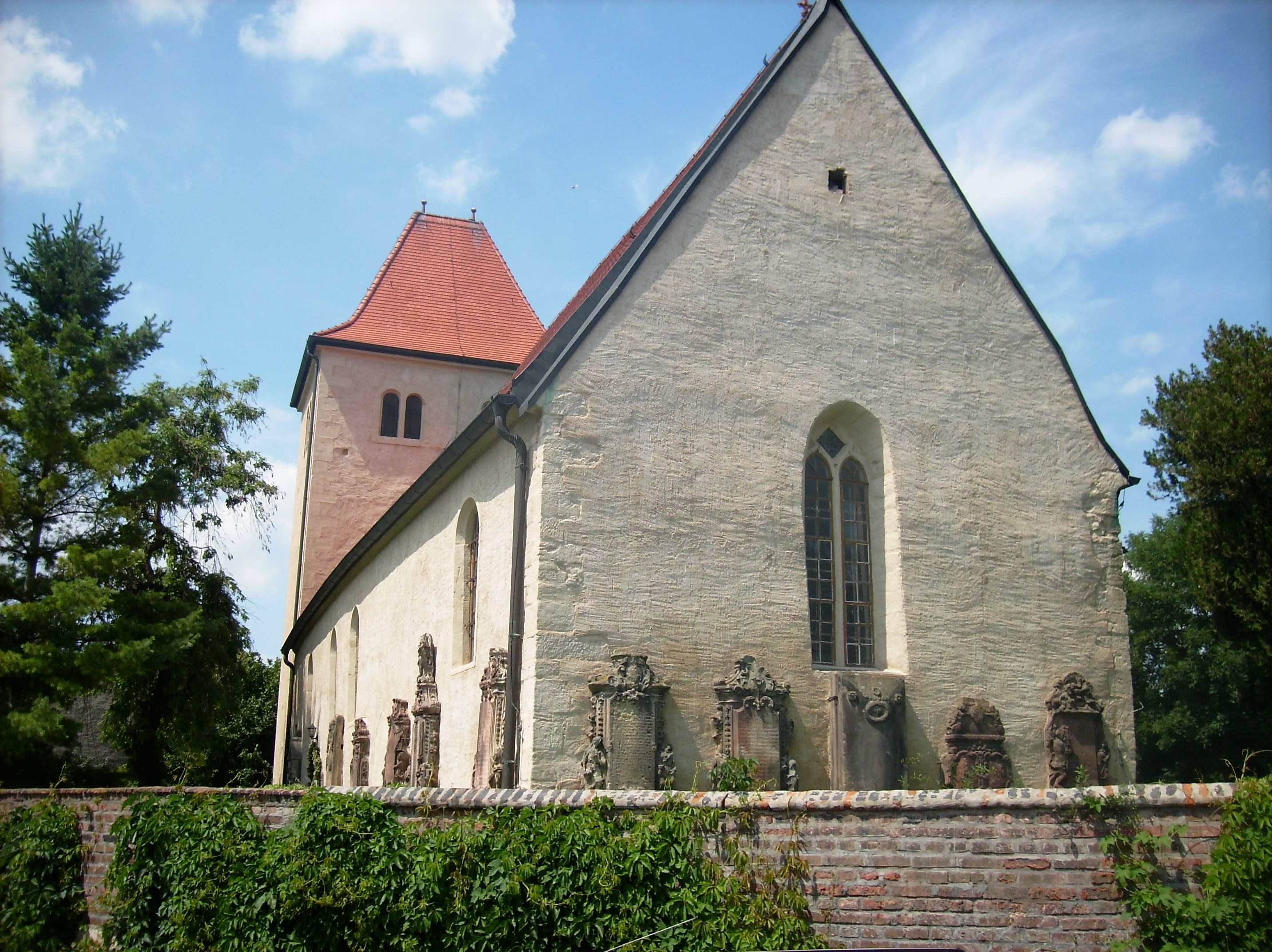 Church of the village of Grossgöhren (Lützen, district of Burgenlandkreis, Saxony-Anhalt)